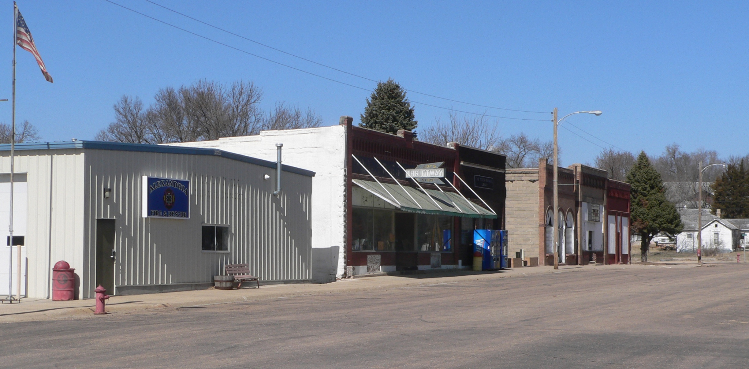 Downtown Alexandria, Nebraska: west side of Harbine Street.